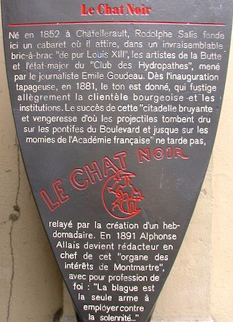 This plaque today marks the original location of Le Chat Noir Cabaret at 84, Boulevard Rochechouart